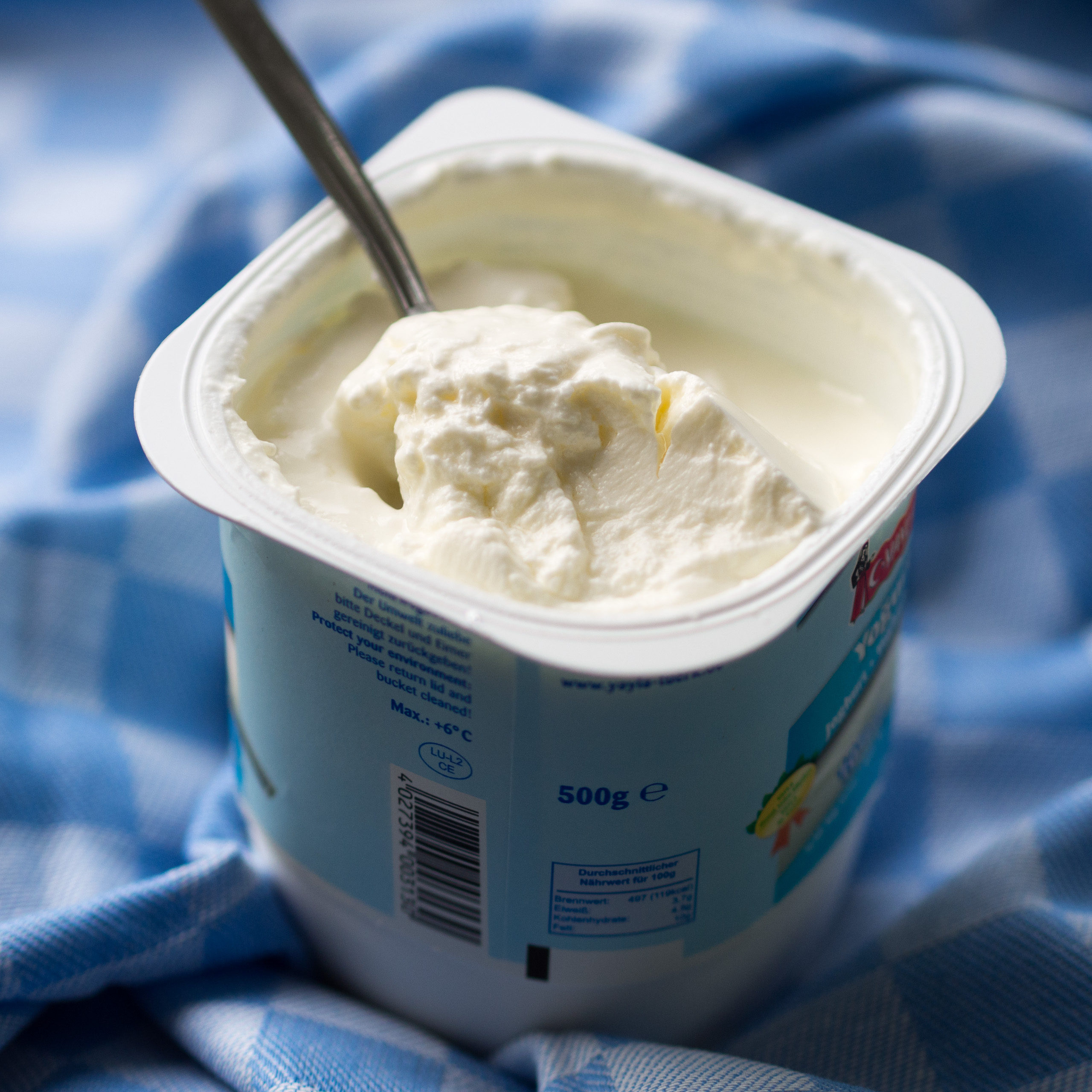 A newly opened package of Turkish Süzme Yoğurt, a strained yoghurt with a 10% fat content. Its contents have not been stirred, showing how thick the yoghurt is. The brand is Yayla, from the YAYLA-Türk company, based in Krefeld, Germany.